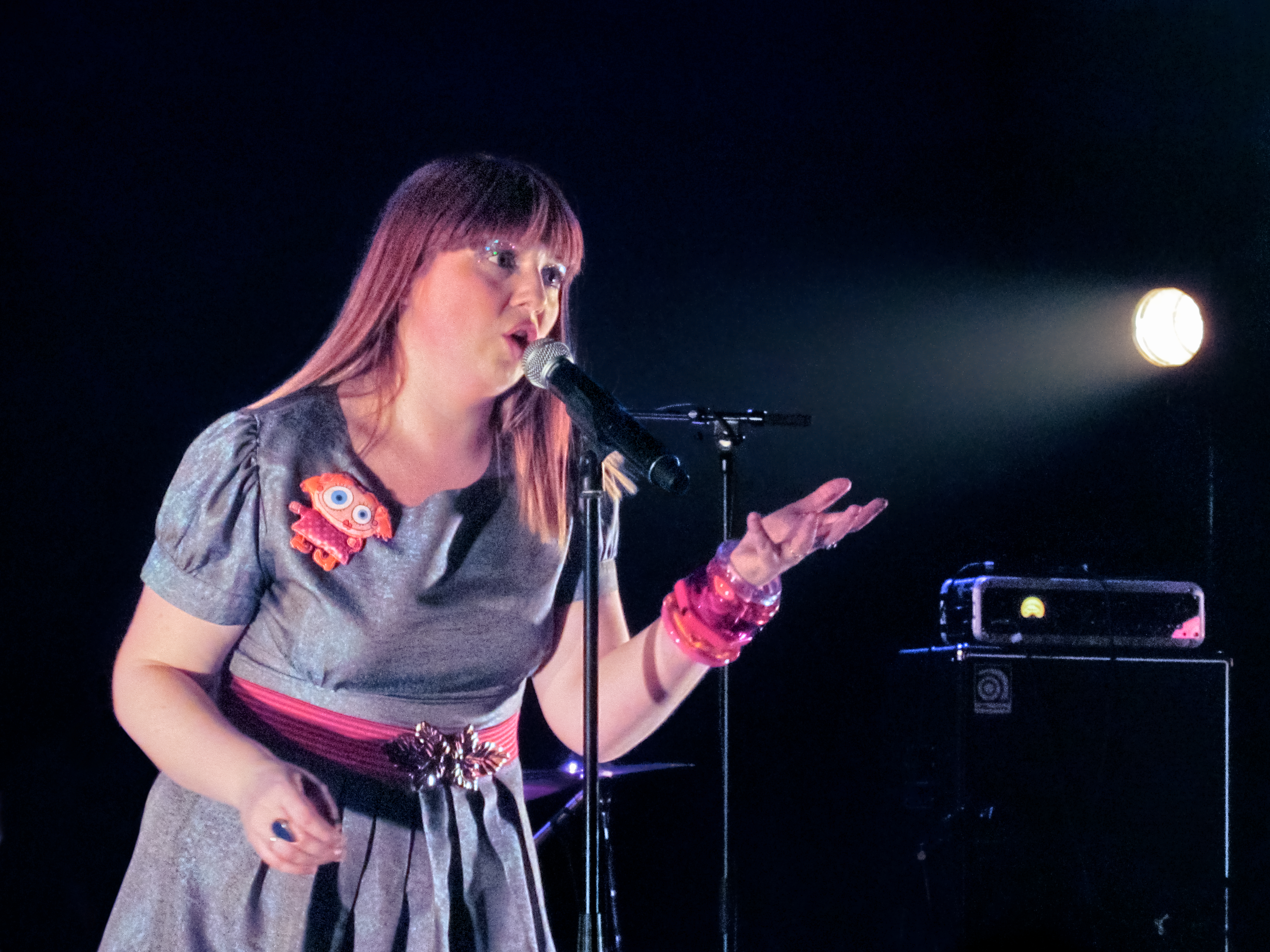 Luce performing in Rombas, march 3rd, 2012